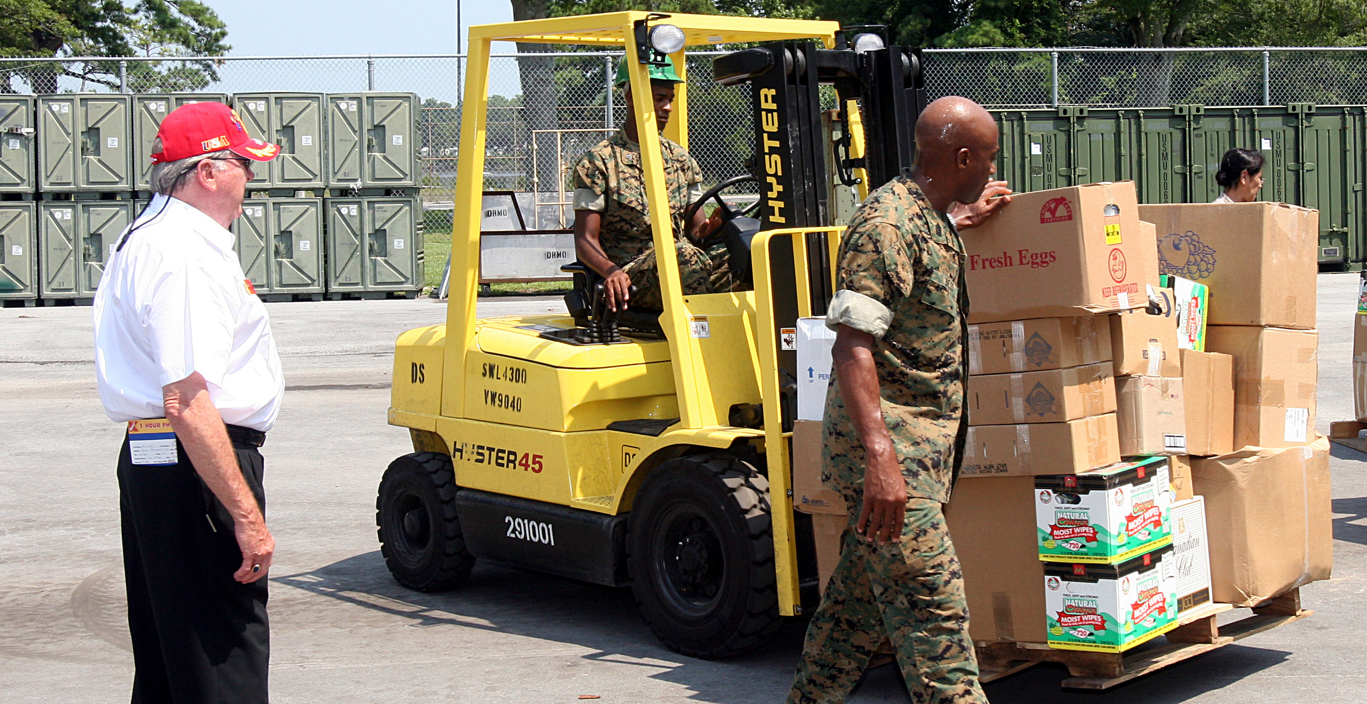 A member of the Department of South Carolina Marine Corps League looks on as Marines from II Marine Expeditionary Force Headquarters Group Supply offloads boxes of donated goods from a cargo truck. DSC MCL donated several thousand dollars' worth of goods to II MEF for distribution to Marines fighting in the Global War on Terrorism.